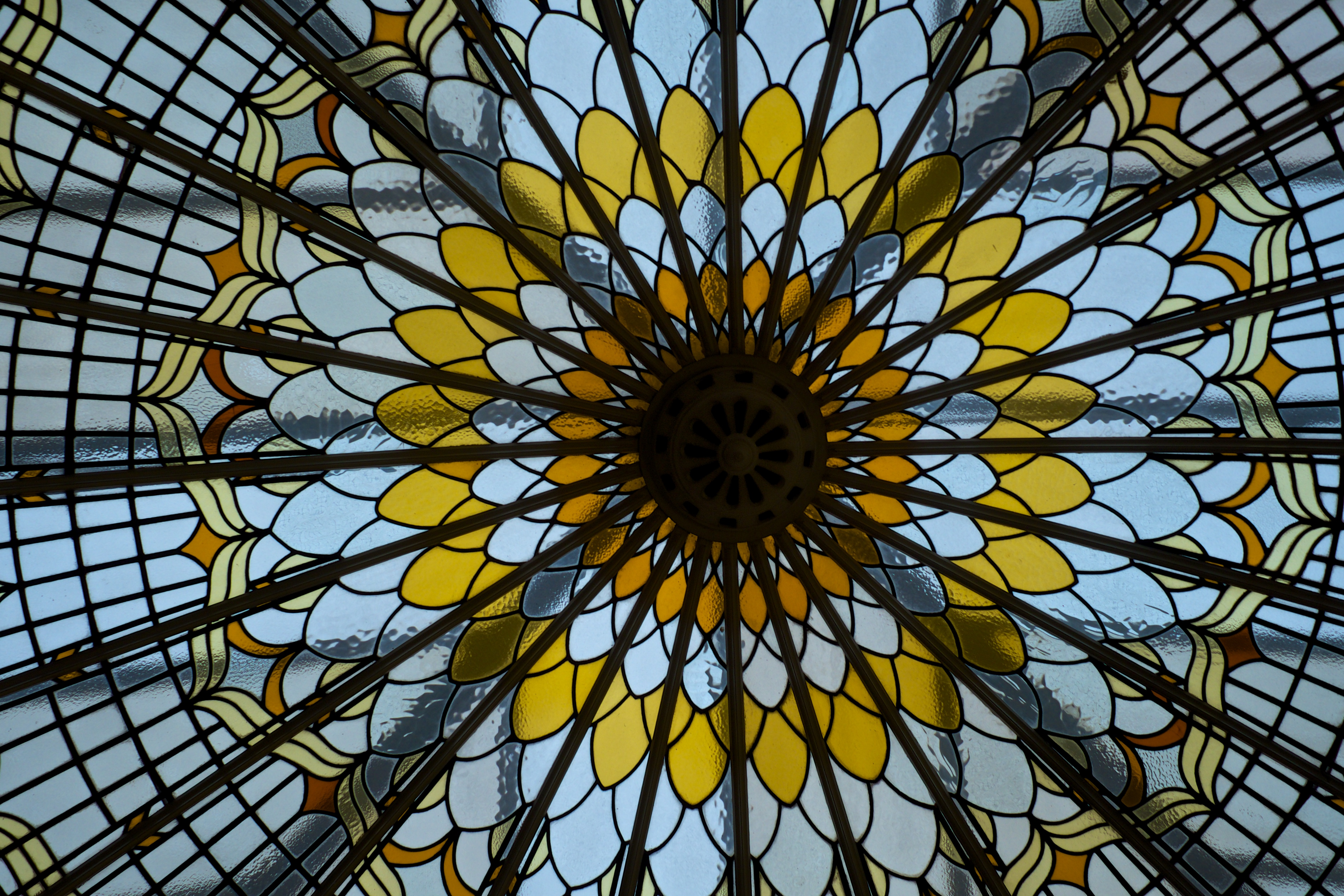 The stained glass roof window dome in the Bishopsgate Library in London EC2.